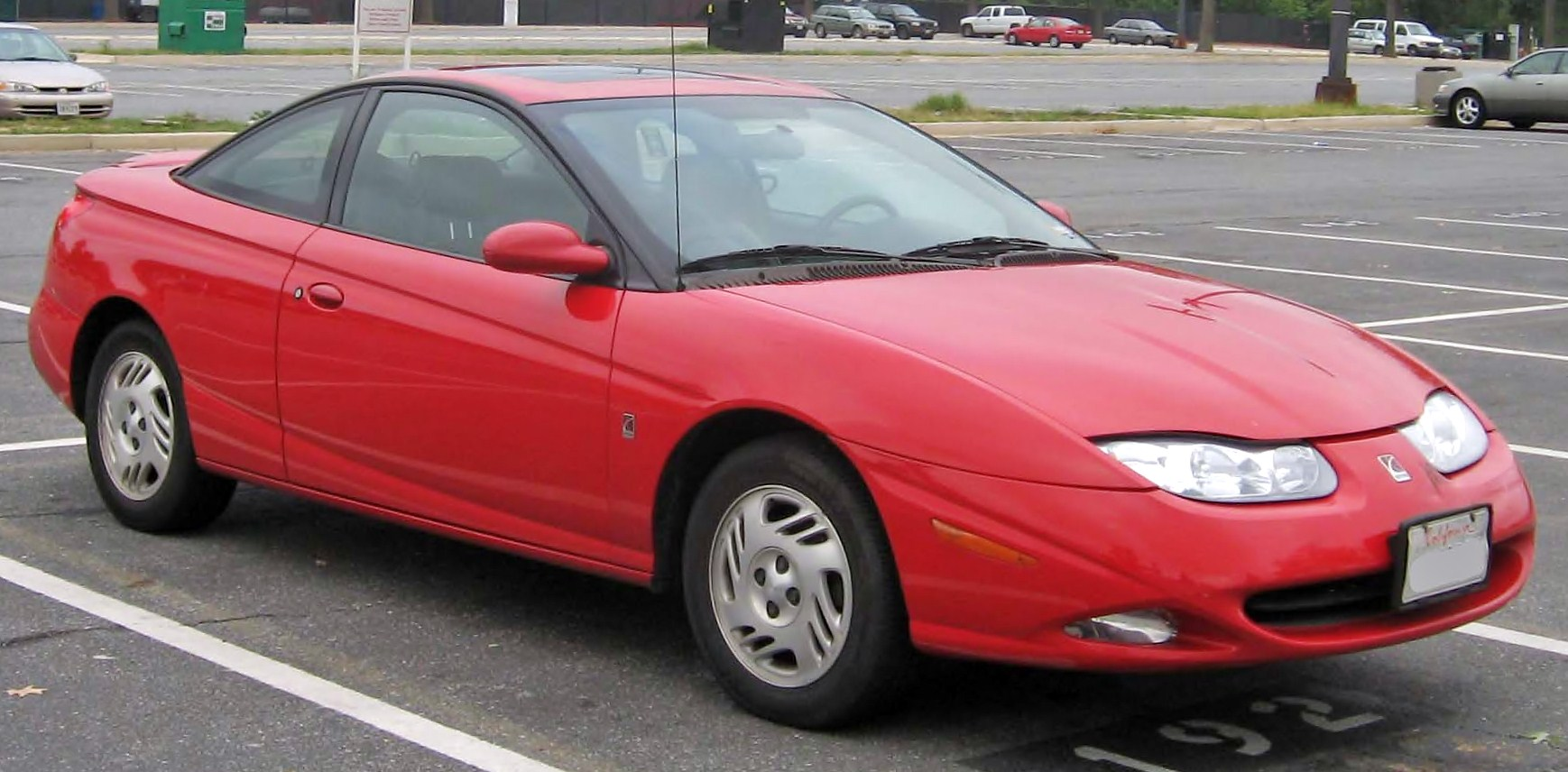 2001-2002 Saturn SC photographed in College Park, Maryland, USA.